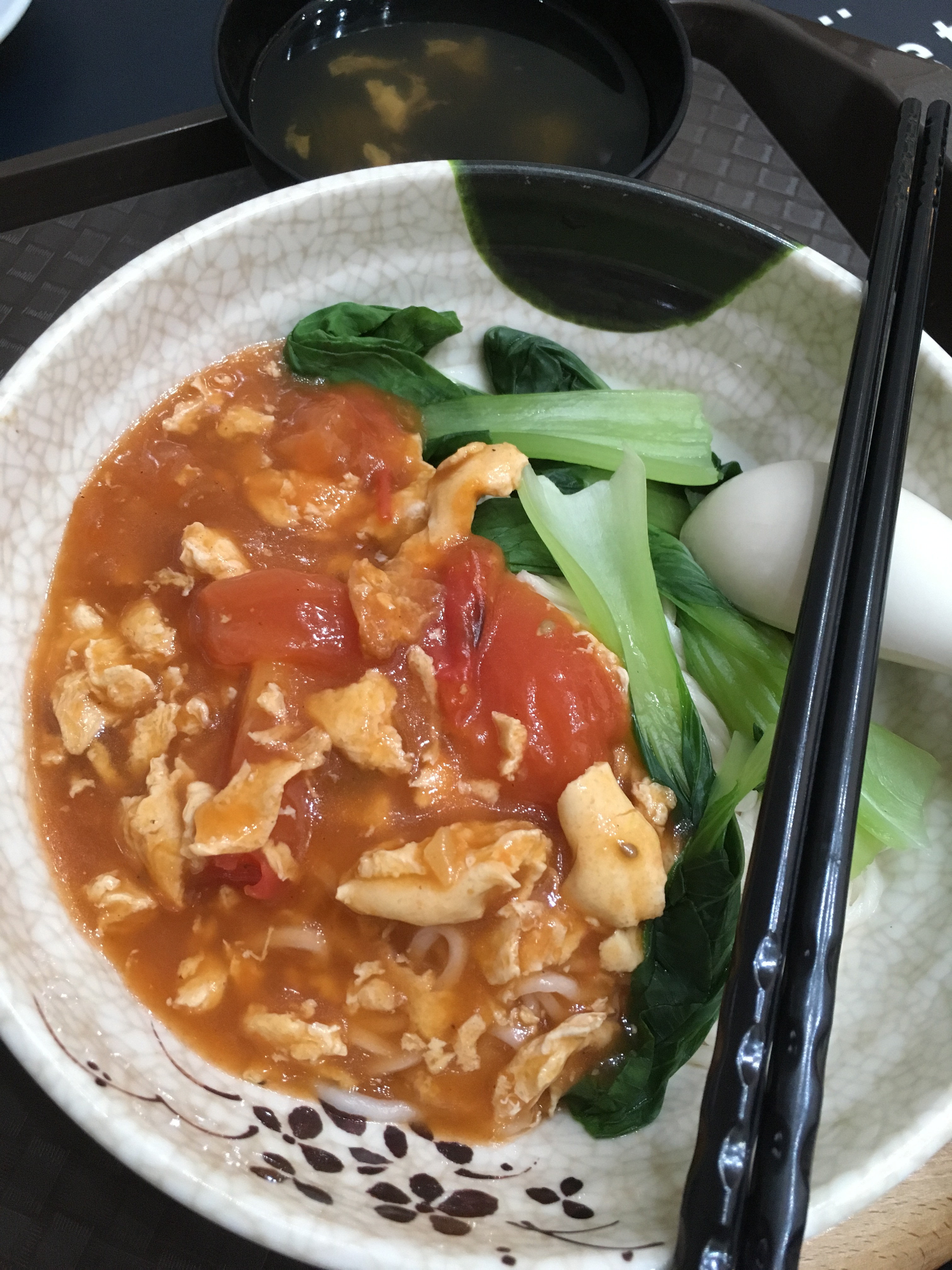 Chinese noodles (La Mian) with Tomato and Egg Sauce is a traditional and popular Chinese dish.